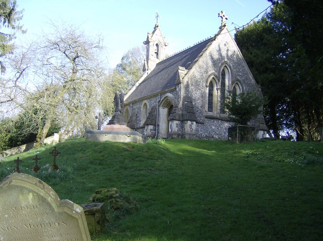 Highclere estate chapel. This is within the Highclere Castle estate, but the gravestones seem to indicate that it fulfils (or used to fulfil) the role of a parish church. Yes, the angles are right; the church itself is on a slight hill so any picture will involve looking up at it. The tree to its left does lean at that angle, and poor Ann Moreton's headstone in the foreground does lean alarmingly the other way!